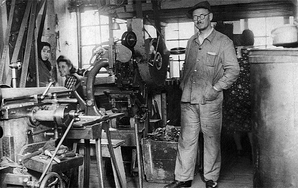 Géza Monsbarth is an important craftsman in the production of Hungarian tin.